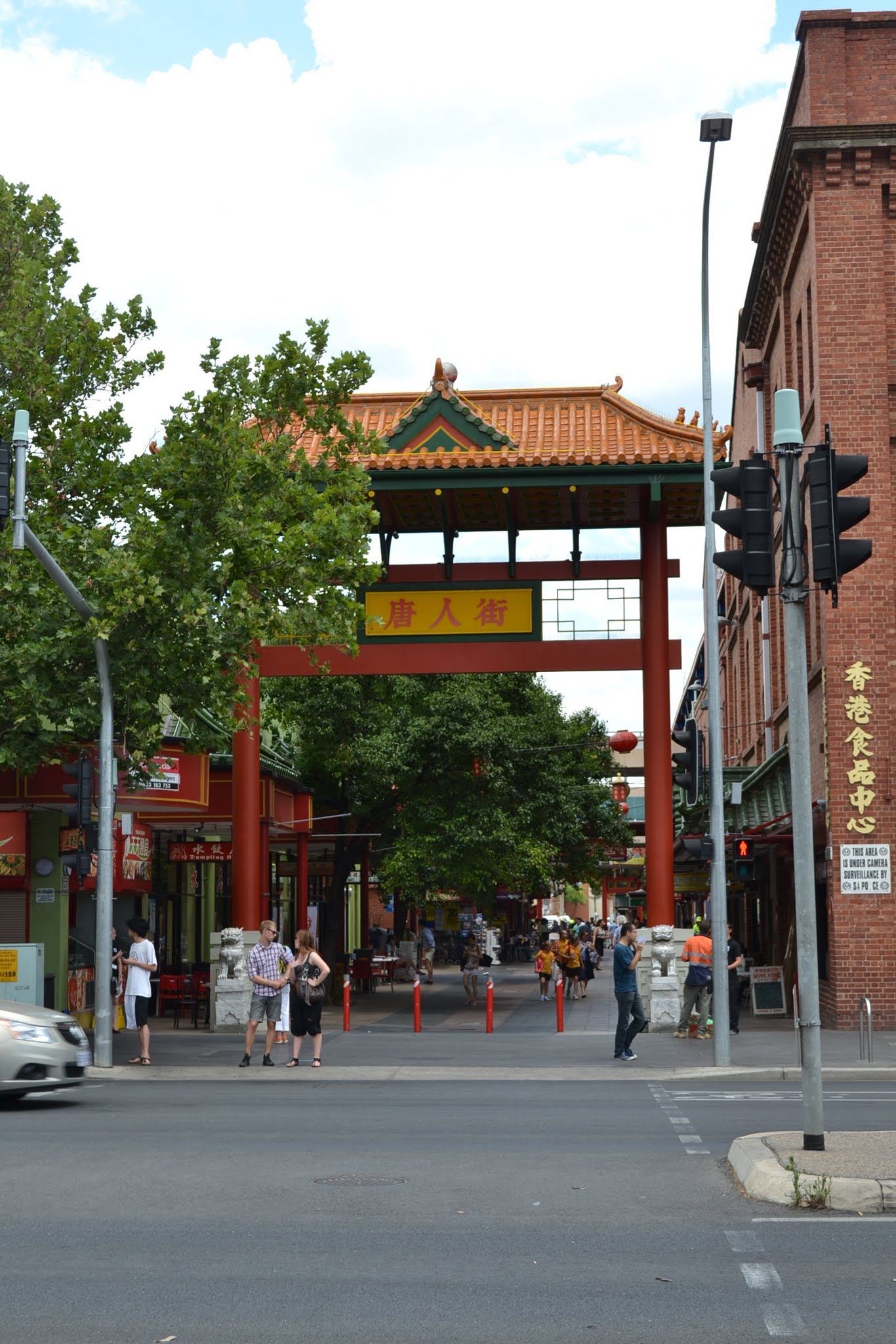 Chinatown